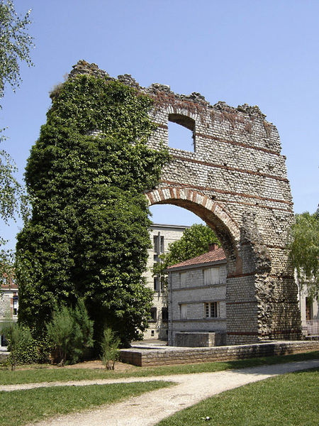 The Arch of Diana, ruins of the antic Roman baths at Cahors, France.